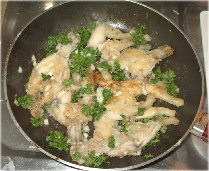 frogs' legs